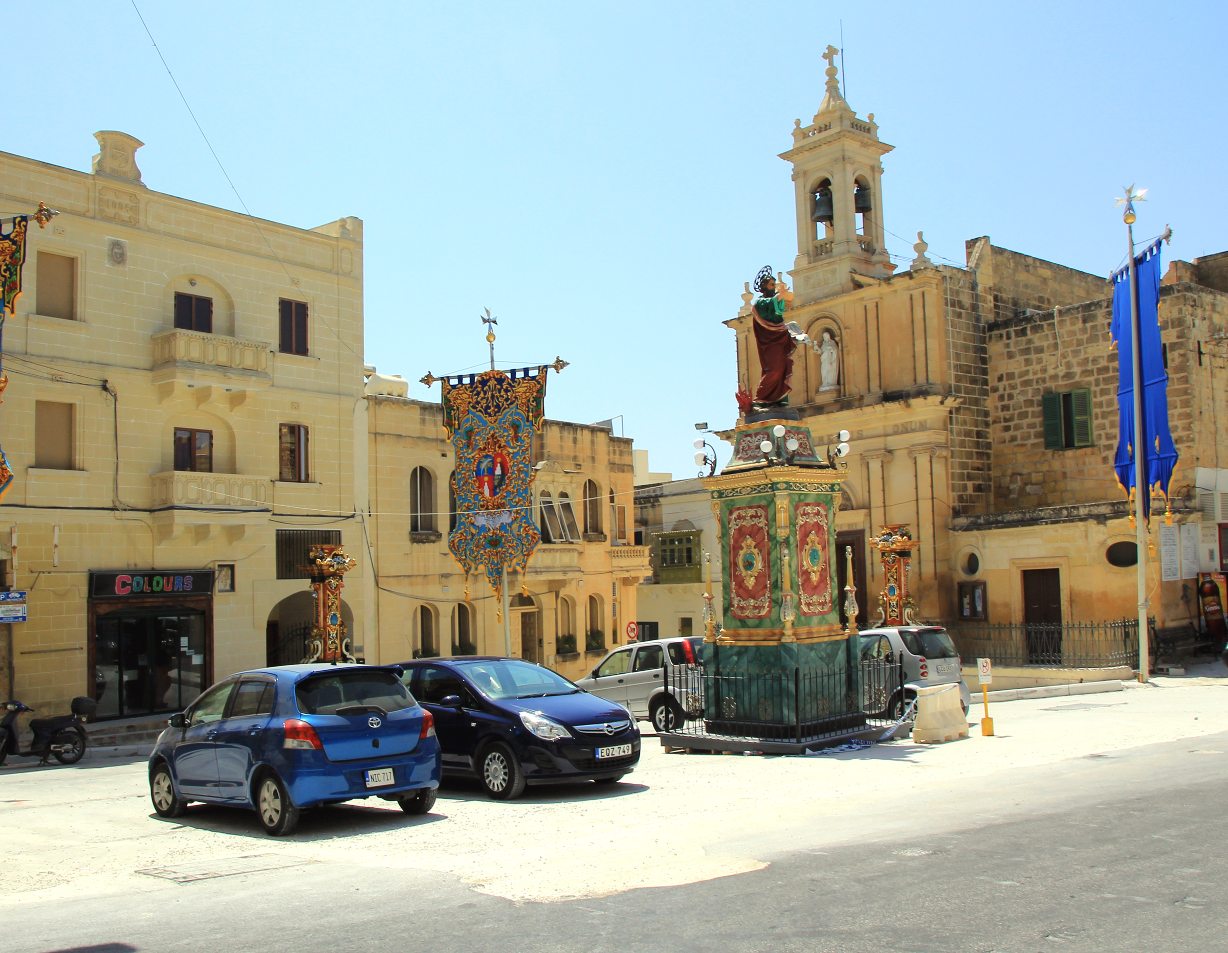 Church of the Nativity of Our Lady (Savina) in Victoria - capital of Gozo island, Malta